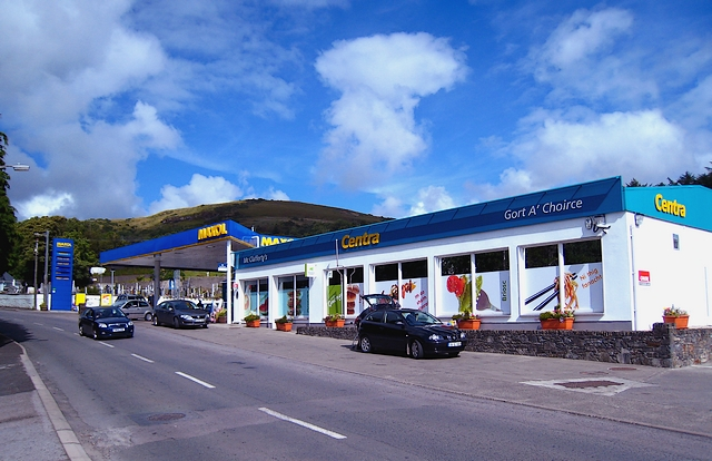 Garage and shop, Gortahork Garage and shop just off the N56 as it passes through the village of Gortahork (Gort A' Choirce in Gaelic) in Donegal.